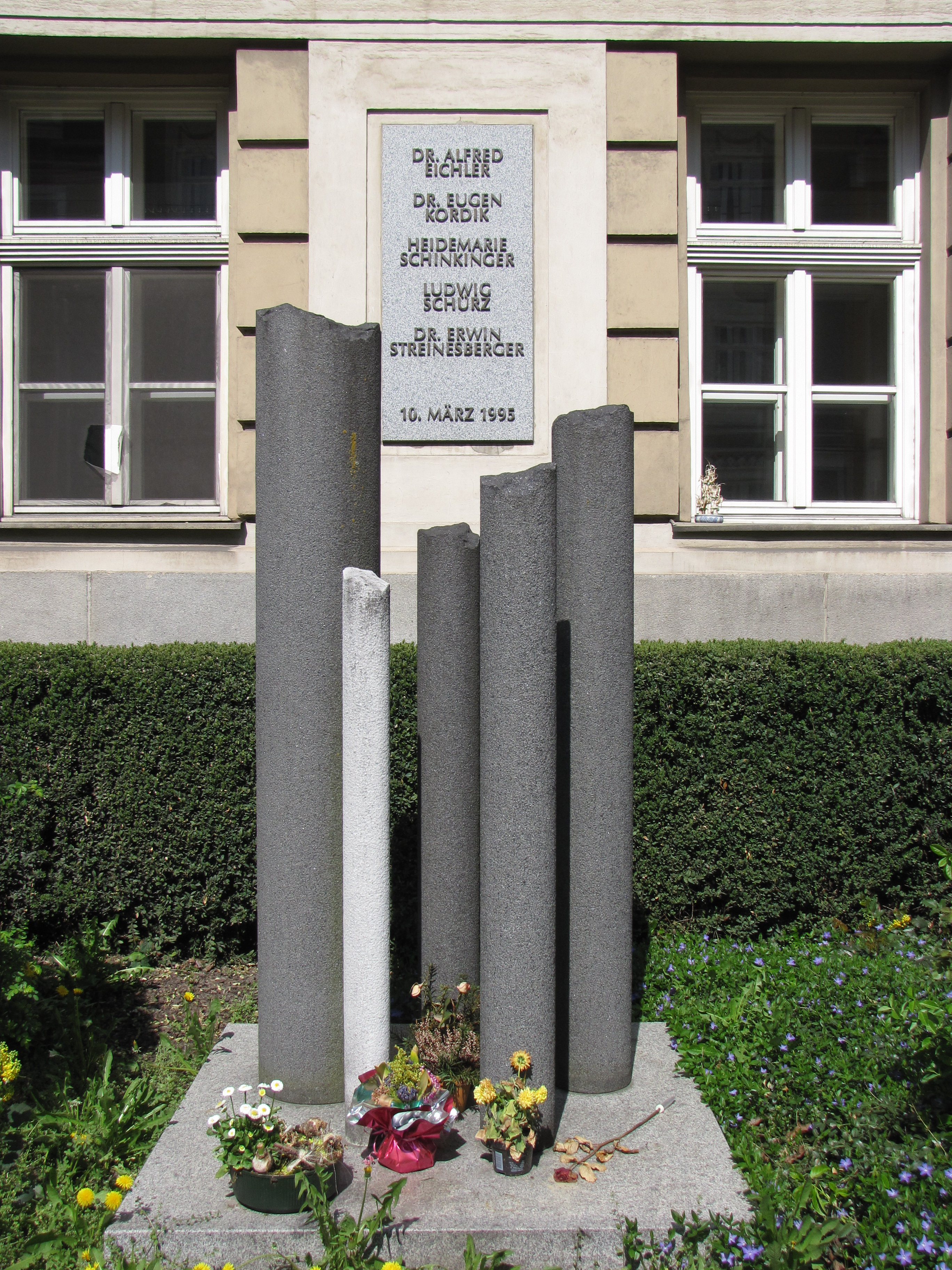 Memorial for the victims of the spree shooting in Urfahr 1995